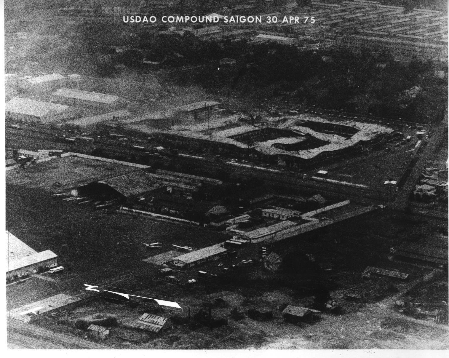 Aerial reconnaissance photo of the destroyed DAO Headquarters, Saigon, Vietnam, 30 April 1975